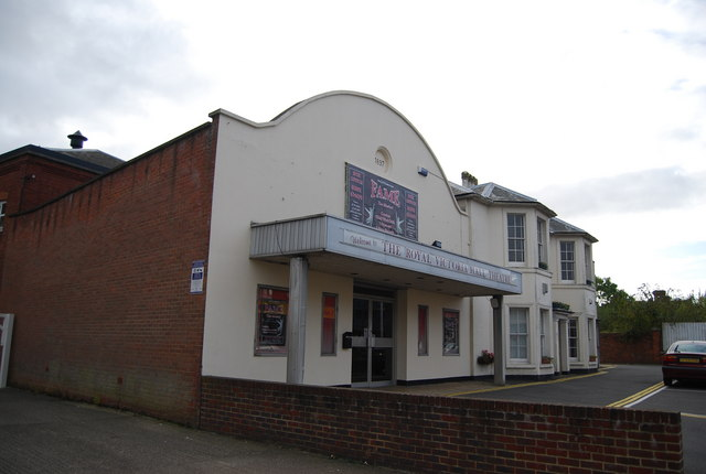 The Royal Victoria Hall, Southborough Opened in 1897 to celebrate the Diamond Jubilee of Queen Victoria